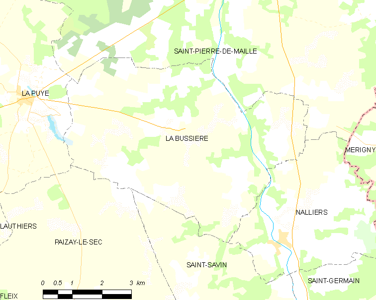 Map of French municipality La Bussière